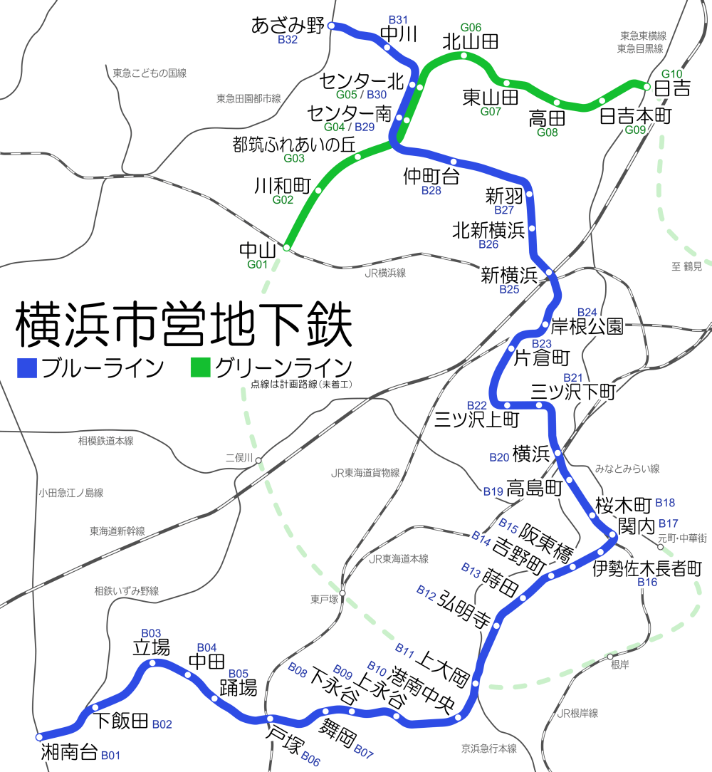 Map of Yokohama Municipal Subway